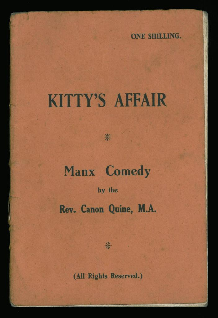 The front cover of Canon John Quine's comic 1909 Manx dialect play, Kitty's Affair.